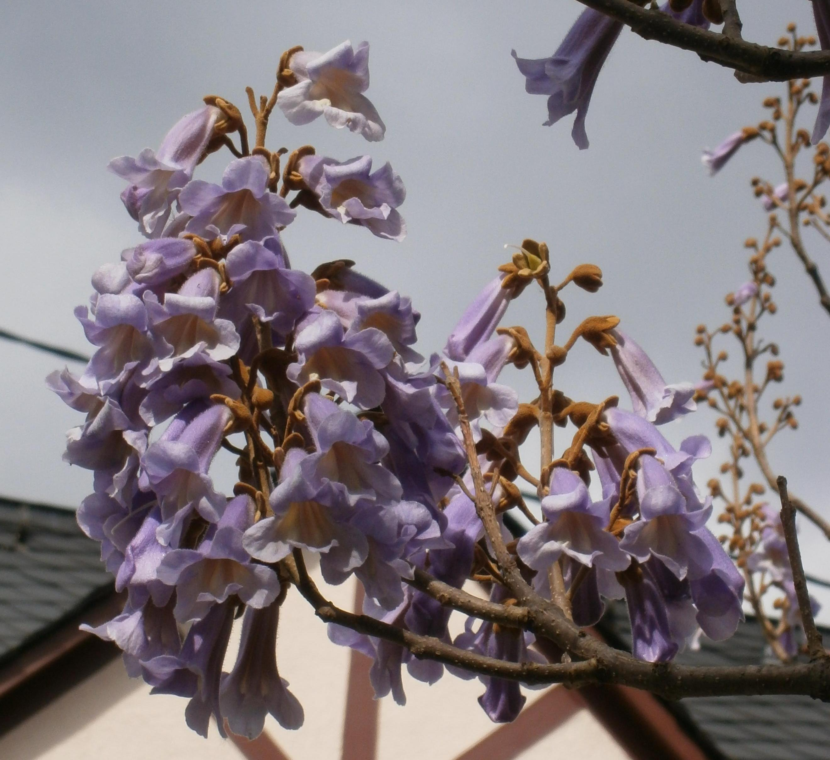 Paulownia tomentosa detail